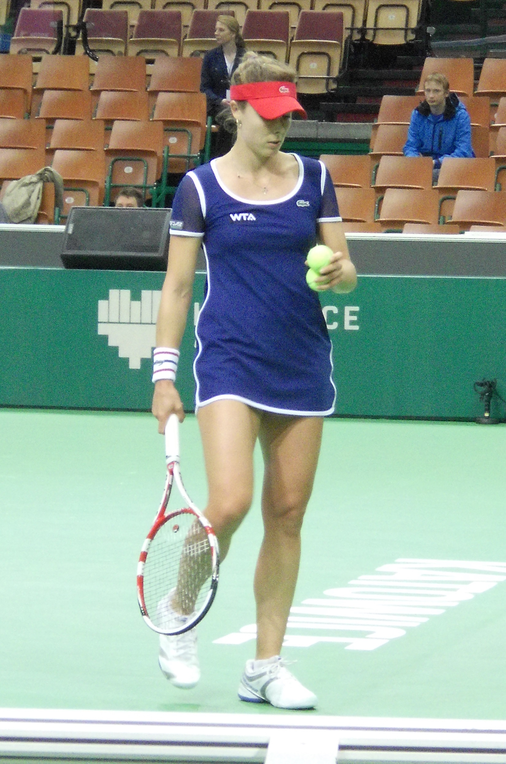 Alizé Cornet during quarterfinal match at BNP Paribas Katowice Open 2014